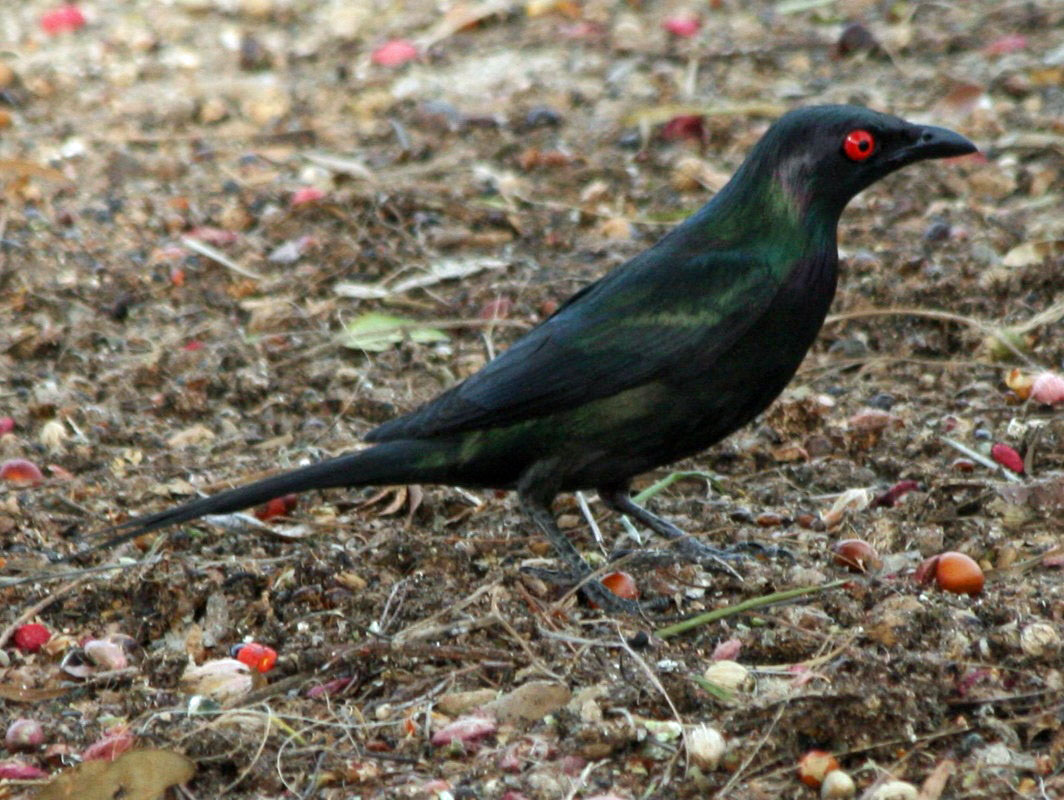 Male Metallic Starling (Aplonis metallica) - Australia